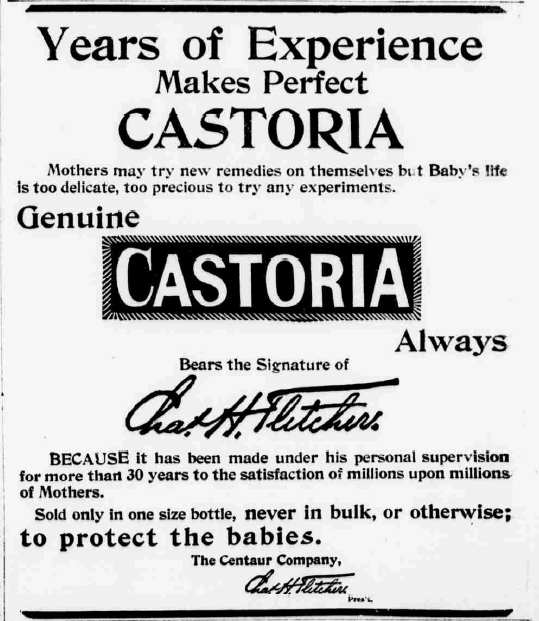 An advertisement for Castoria (later Fletchers) Laxative. Prominent in the image is the signature of Charles Henry Fletcher, for whom the product was eventually named.